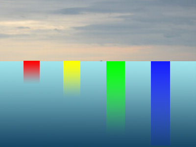 Graph showing color loss in water